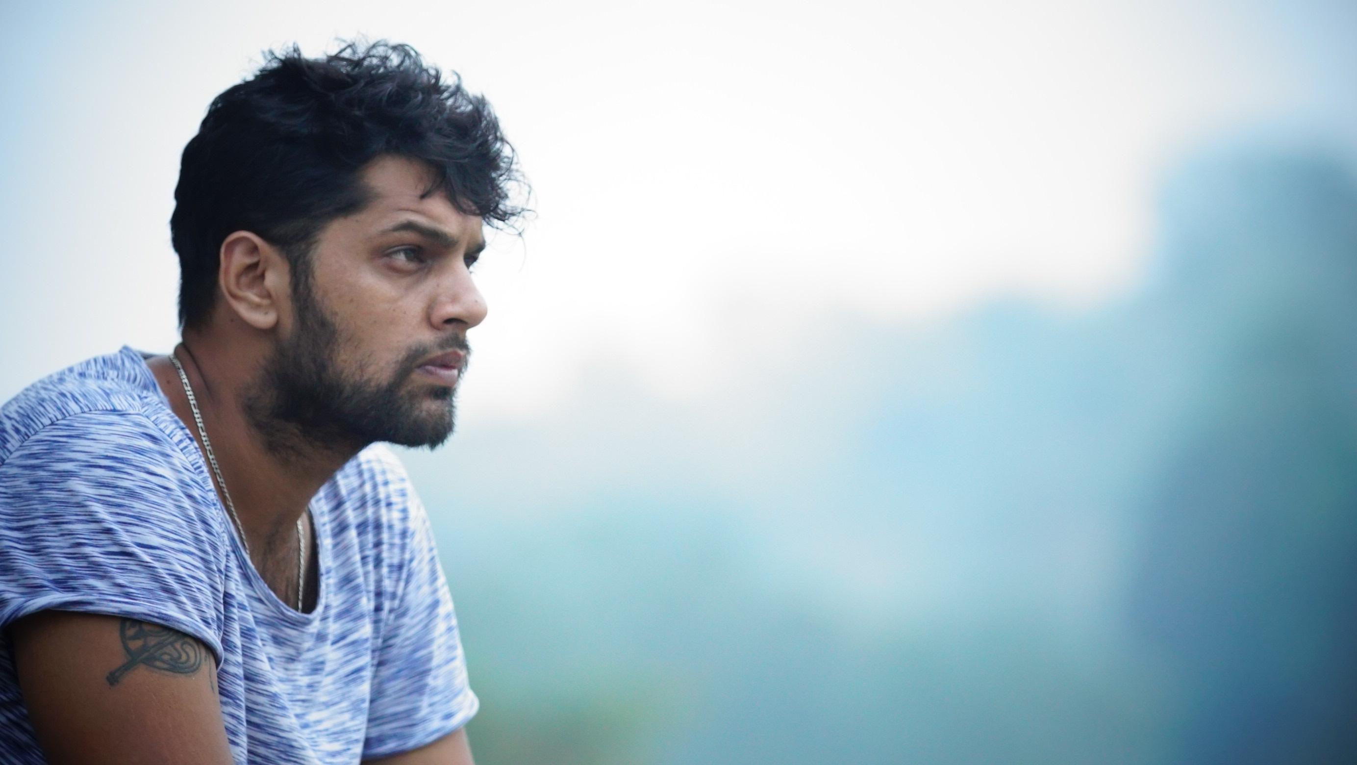 shot clicked during reeling of joshelay webseriesA